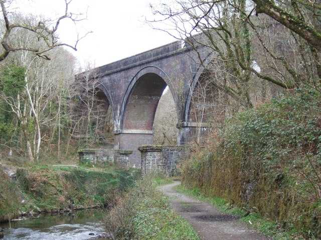 Cann Viaduct and river Plym The disused railway is now a cycle path; on the bridge there is an RSPB viewpoint to see the peregrine falcons' nest in Cann Quarry